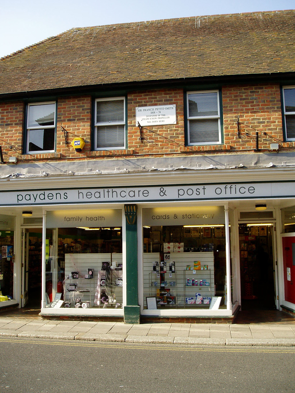 The birthplace of Francis Pettit-Smith in Hythe, Kent, UK - now Paydens Healthcare & Post Office.